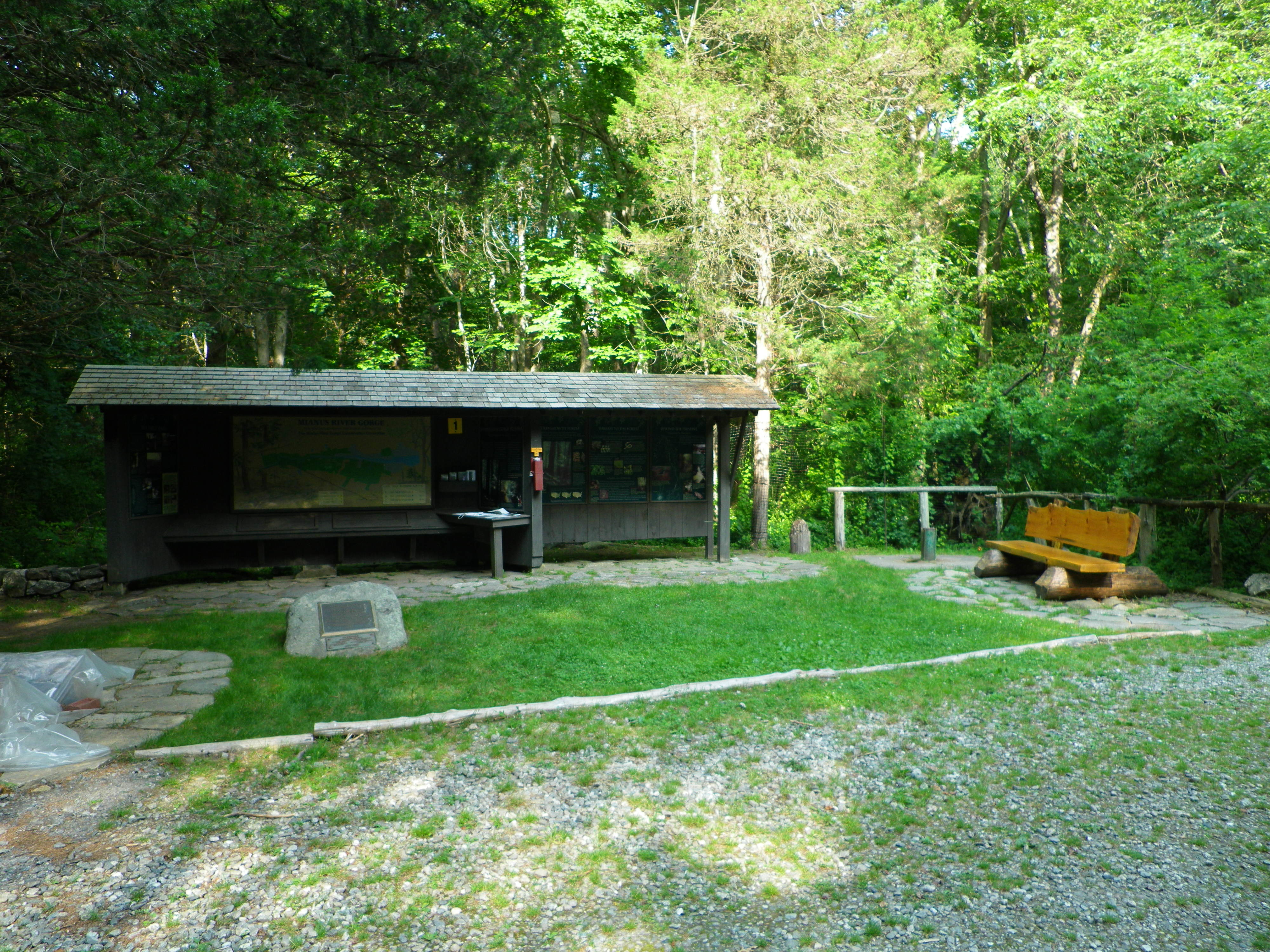 Mianus River Gorge — entrance in Bedford, Westchester County, New York. A Nature Conservancy preserve, and a U.S. National Natural Landmark.